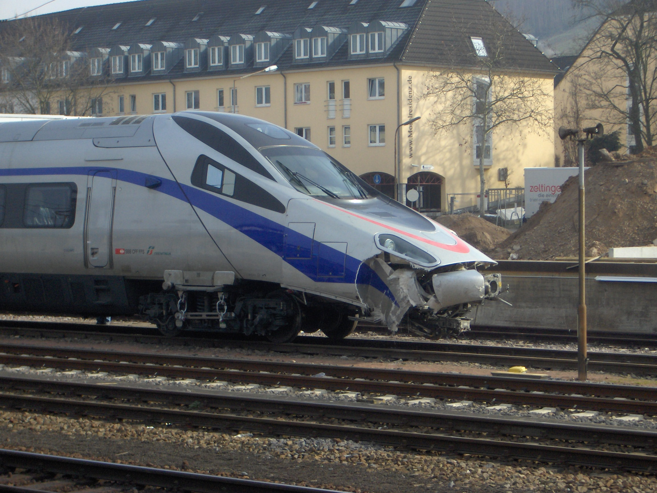 The damaged ETR 610 011 in Trier (Germany). The train derailed at ca. 21:00 hrs after overrunning a buffer during shunting.